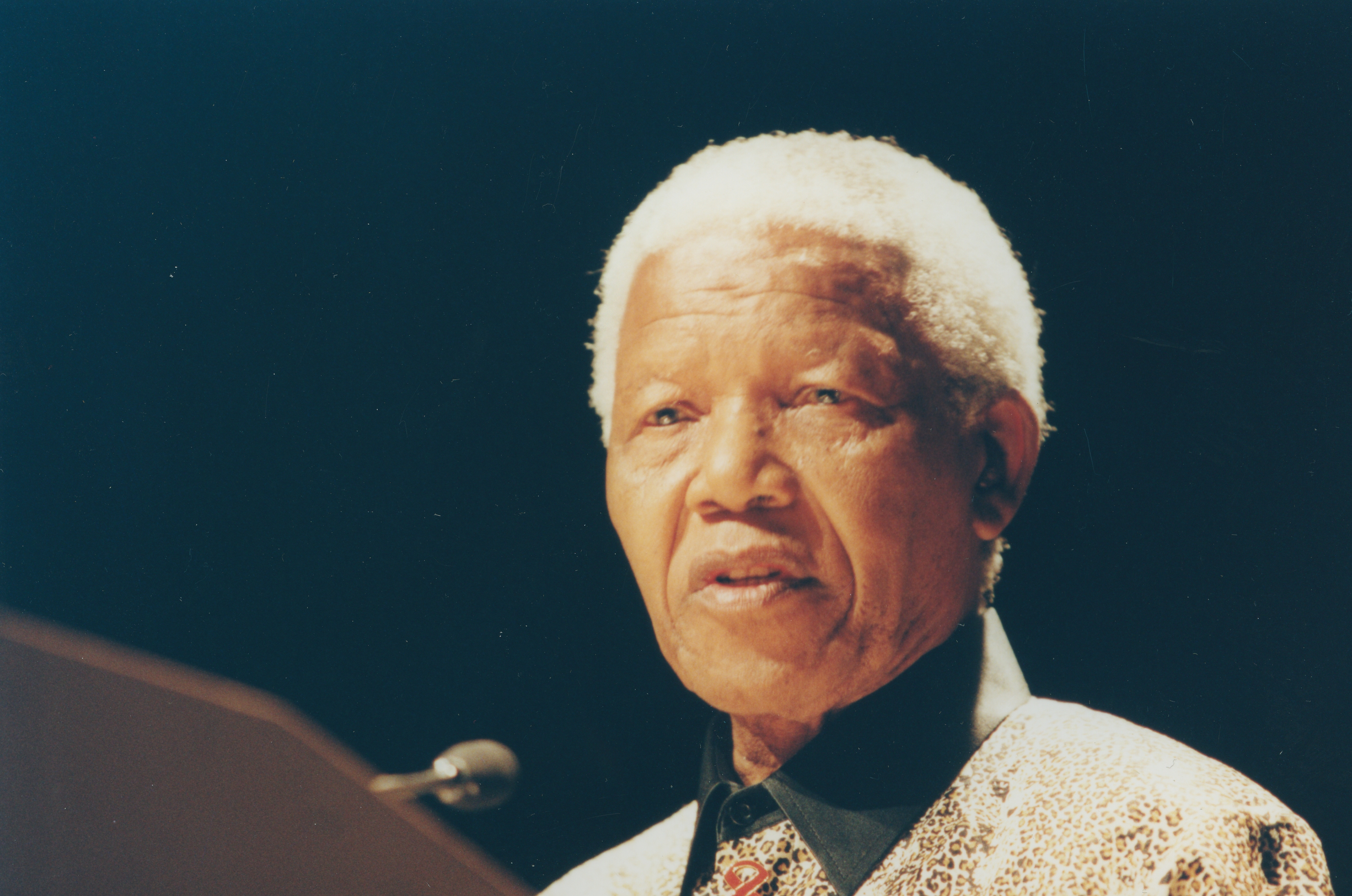 6th April 2000 Visit of Nelson Mandela to give a lecture at LSE on 'Africa and Its Position in the World.' Held at the Peacock Theatre. IMAGELIBRARY/818 Persistent URL